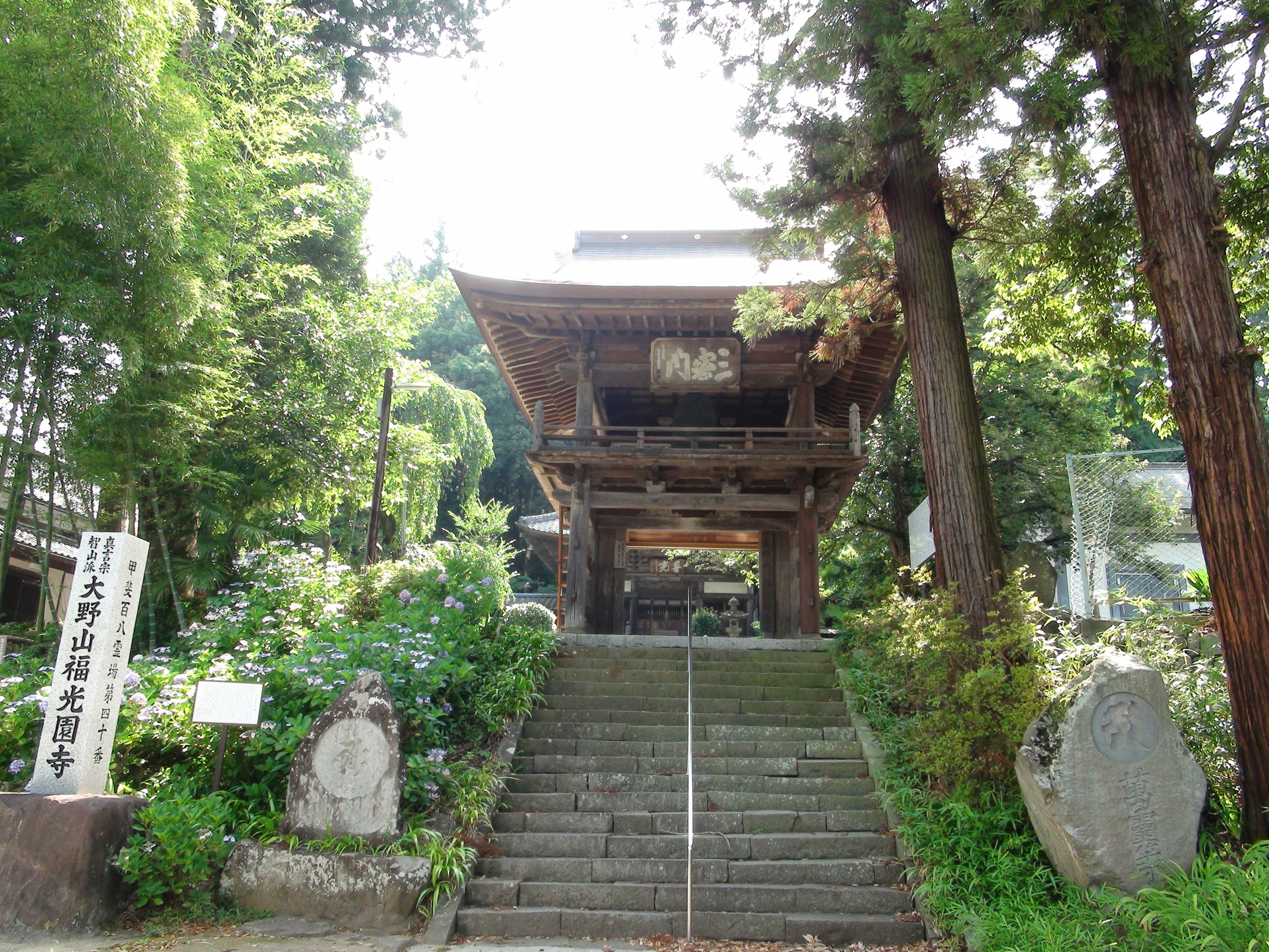 Fukkou-onji Temple gate Fuefuki-city